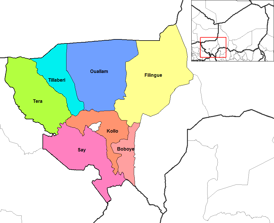 Map of the arrondissements of Tillaberi department in Niger.